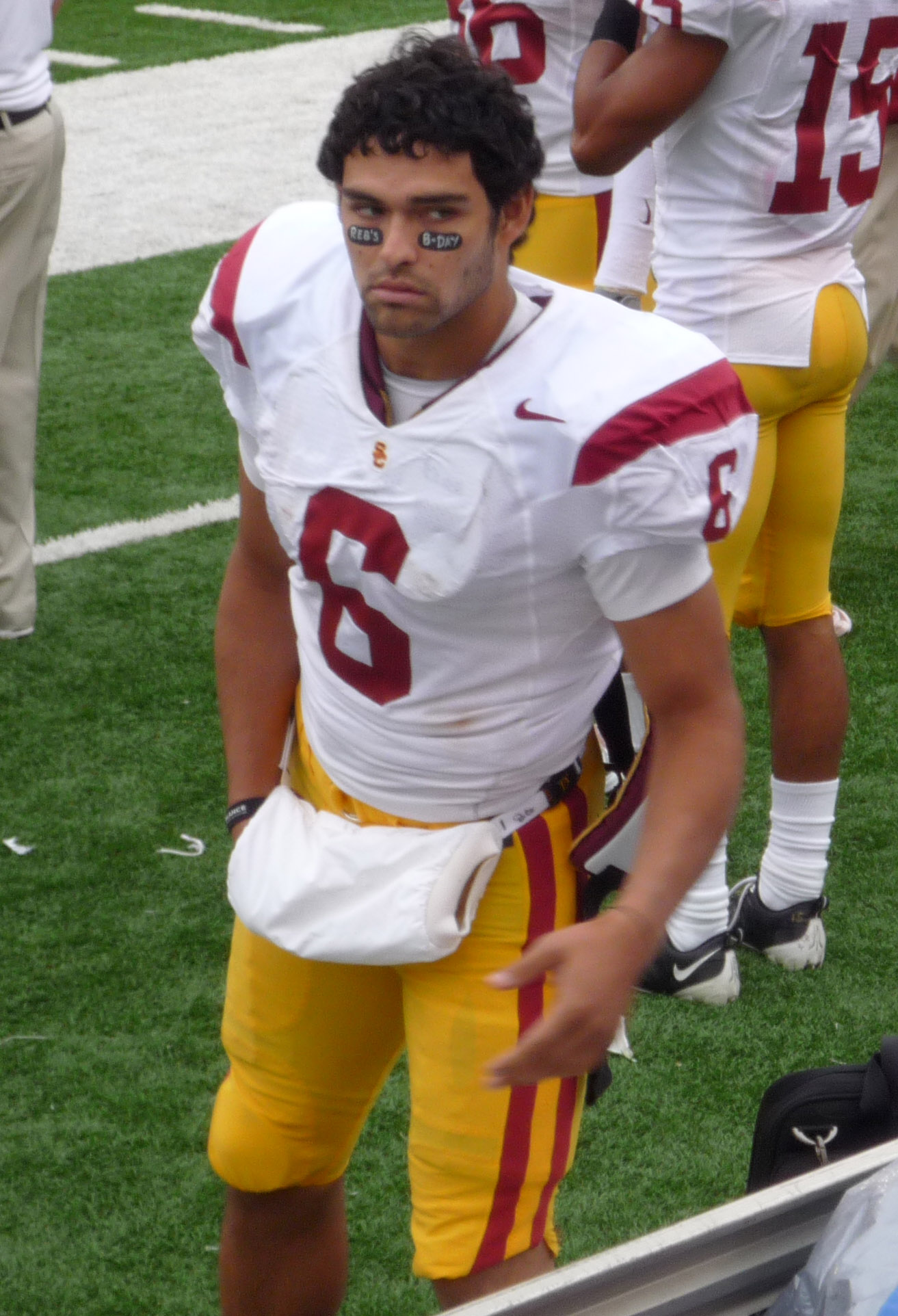 USC Trojans quarterback Mark Sanchez, on the sidelines during a game versus the Washington State Cougars in the 2008 season.